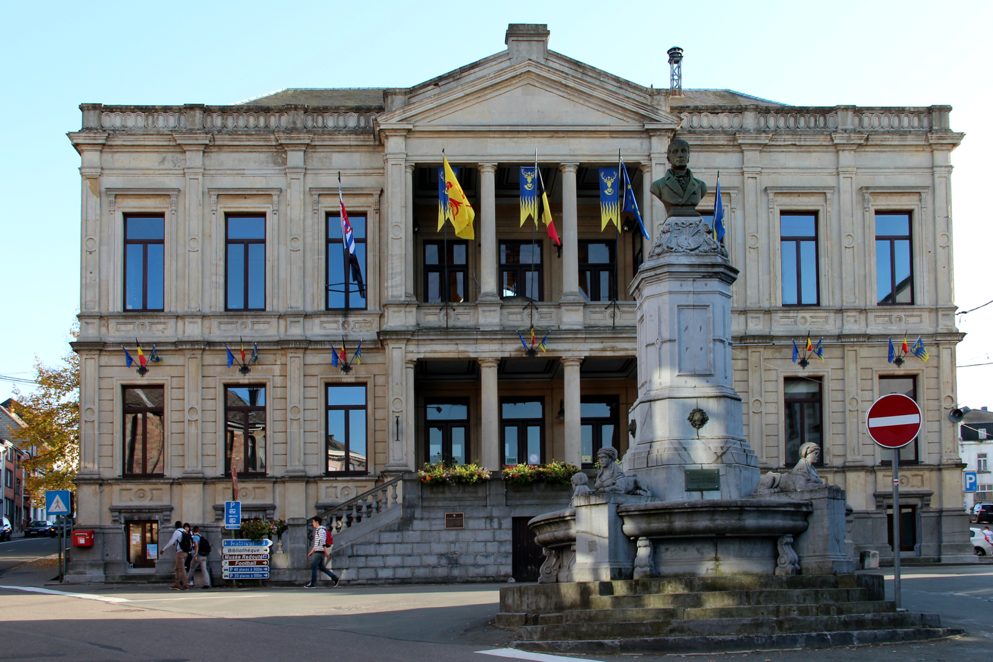 Saint-Hubert (Belgium), Place du Marché - The fountain of Pierre-Joseph Redouté and the city hall.